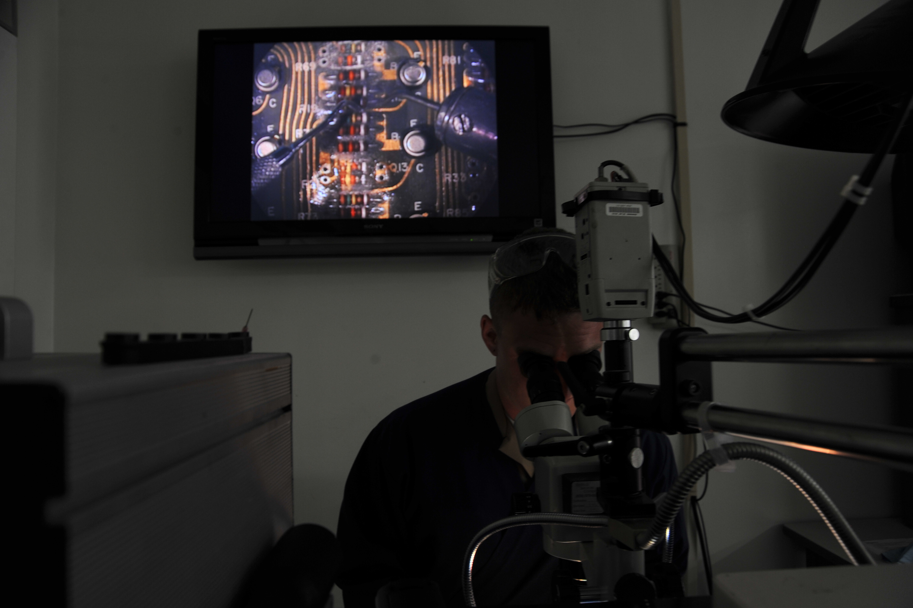 ATSUGI, Japan (July 25, 2012) Electronics Technician 2nd Class Daniel Baxter demonstrates his knowledge of miniature and microminiaturized electronics for his students at Naval Air Facility Atsugi. (U.S. Navy photo by Aerographer's Mate 3rd Class McArthur Albert II/Released) 122507-N-FV750-006 Join the conversation navylive.dodlive.mil